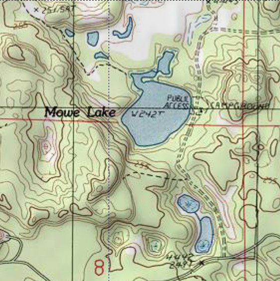 A crop of a portion of the USGS quadrangle topo map showing Mowe Lake in Delta County, Michigan